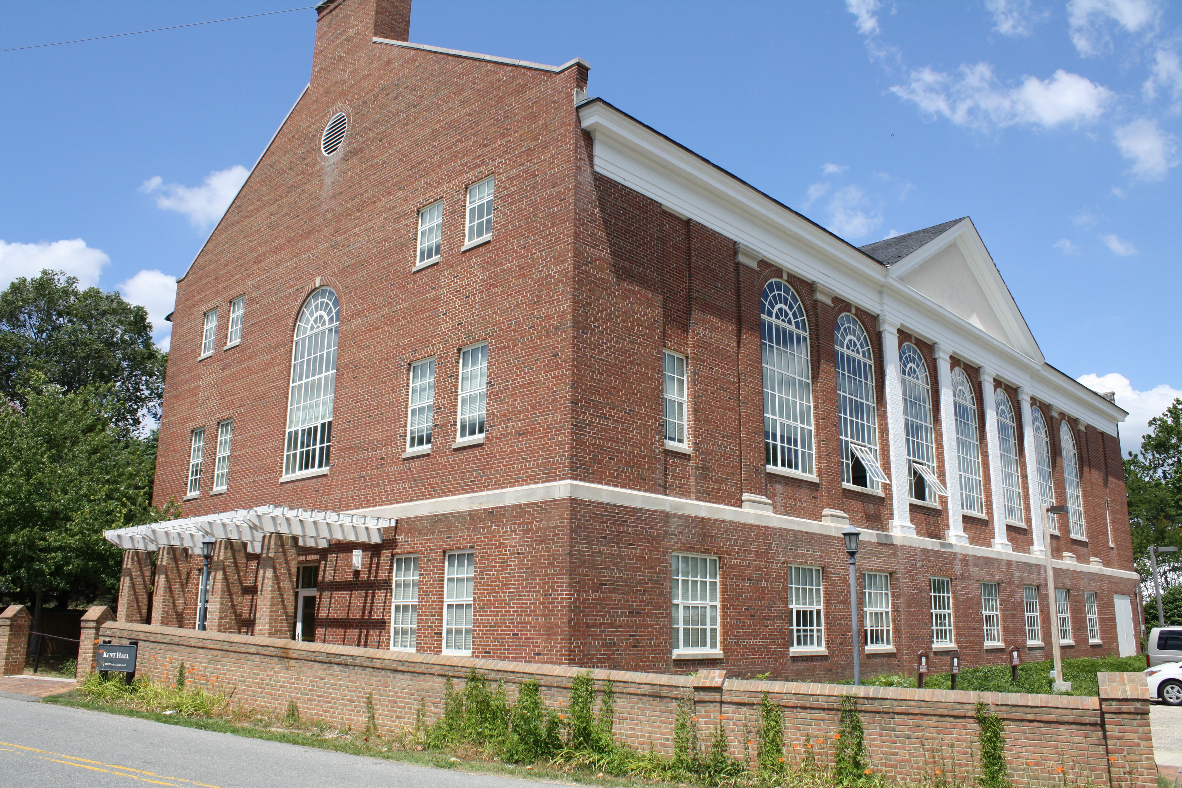 St. Mary's College of Maryland . Route 5 . St. Mary's City, Maryland . Tuesday afternoon, 14 June 2011 . Elvert Barnes Photography Visit St. Mary's College of Maryland at Visit Elvert Barnes RETURNING TO MY ROOTS / ST. Mary's County MD | June 2011 at